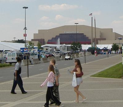 The outside of Freedom Hall, located at the Kentucky Exposition Center in Louisville, Kentucky.